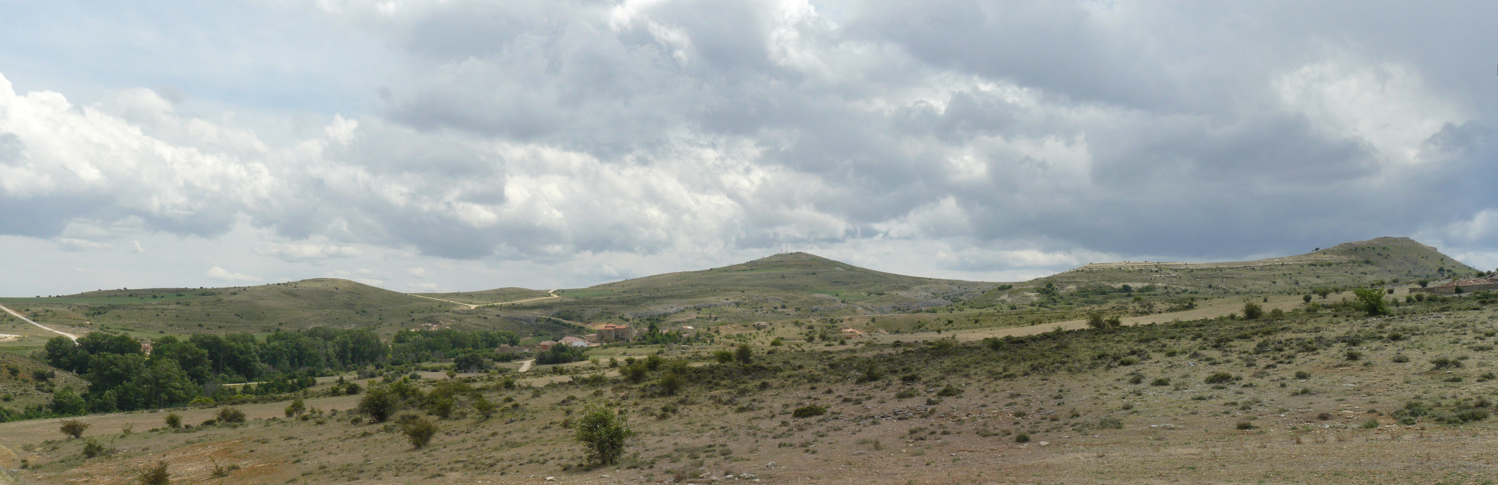 Panoramic view of Madruédano, Soria (Spain)